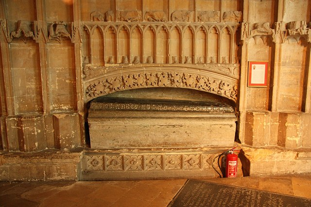 Tomb of Hugh Despenser the younger Tomb in Tewkesbury Abbey that originally had an effigy of Hugh Despenser the younger, later replaced by a sarcophagus and slab for Abbot John Coles (1328-1347) Hugh Despenser was the Royal favourite of King Edward II, popularly thought to have been homosexual lovers and widely despised by the Queen and the Barons. He met a very grisly end in 1326 - hung, drawn, disemboweled, beheaded and quartered as a traitor with his penis and testicles cut off and burned before him whilst still alive Hugh_Despenser_the_Younger